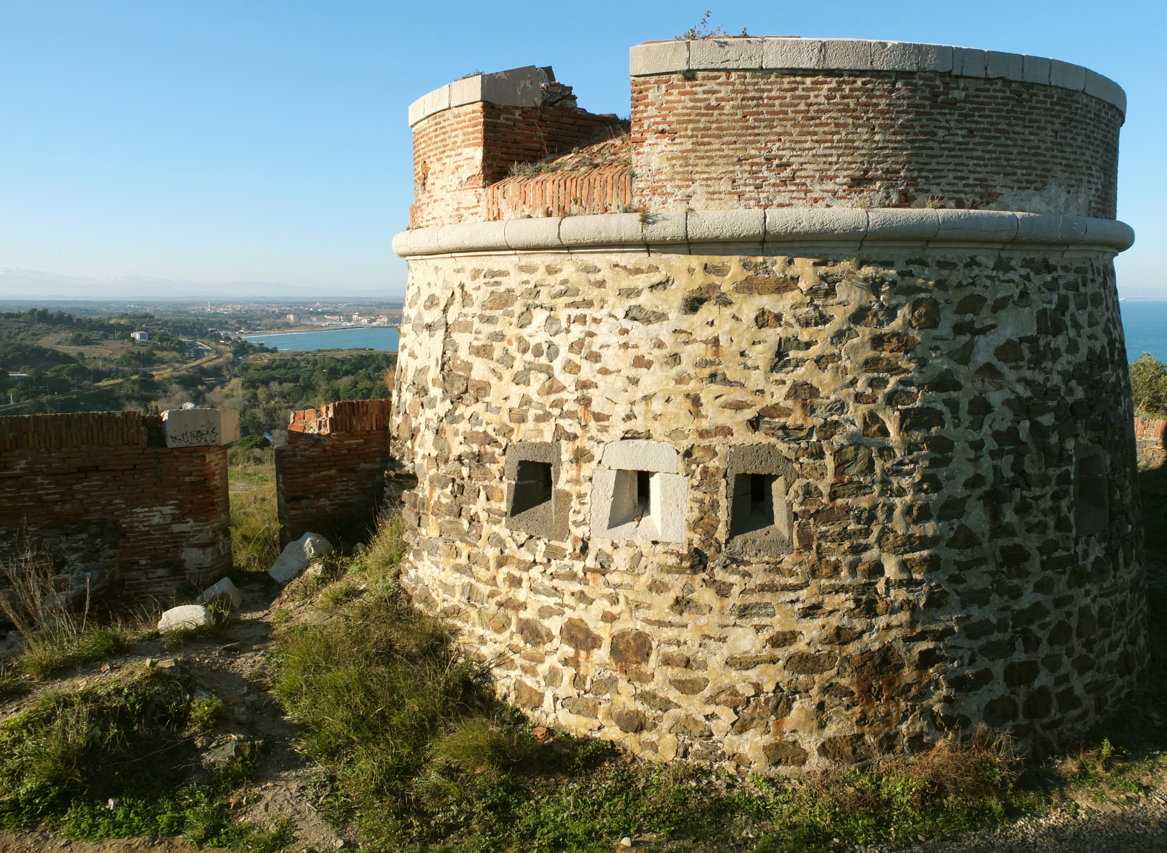 Collioure: Fortification Tour de l'étoile (also called Fort rond) built in 1725, the bay of Argelès in the backgound.